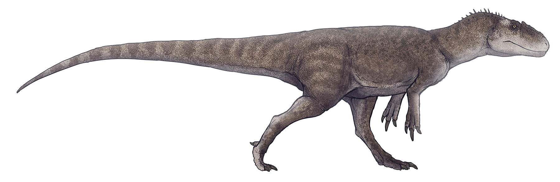 Full body reconstruction of Gasosaurus constructus.